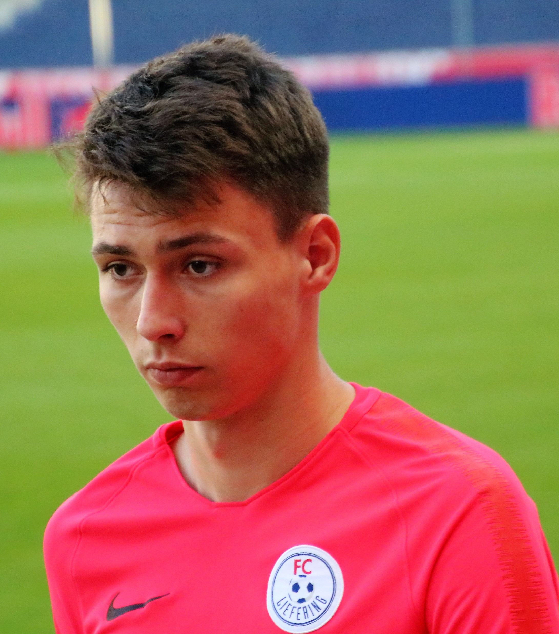 FC Liefering vs WSG Wattens (24. Mai 2019) 1:2 league match Austria 2nd league